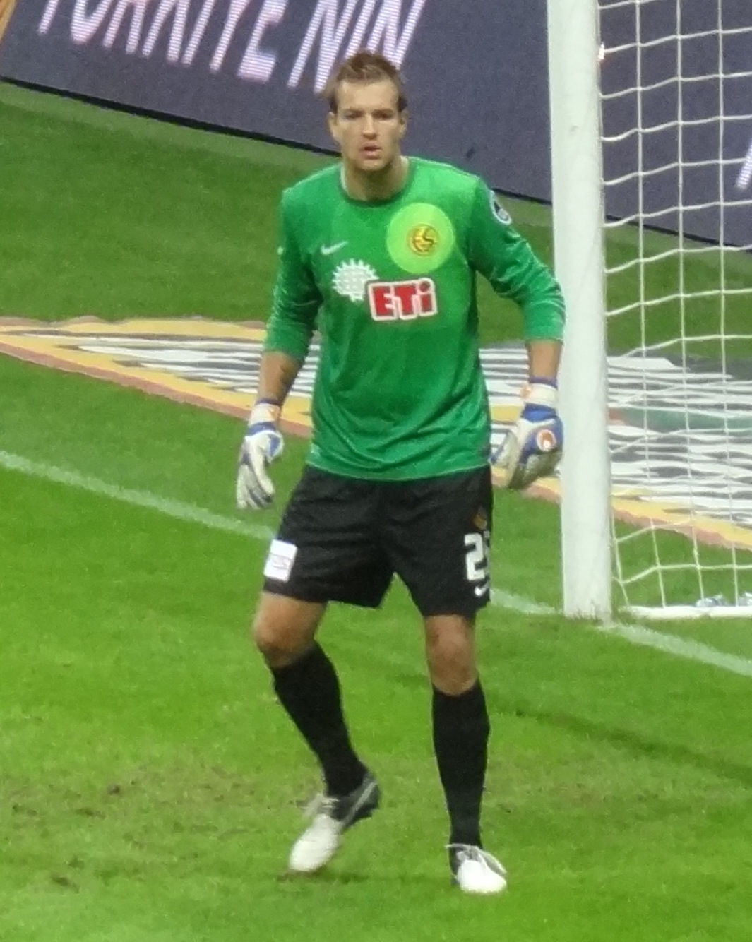 Boffin @ GS Match